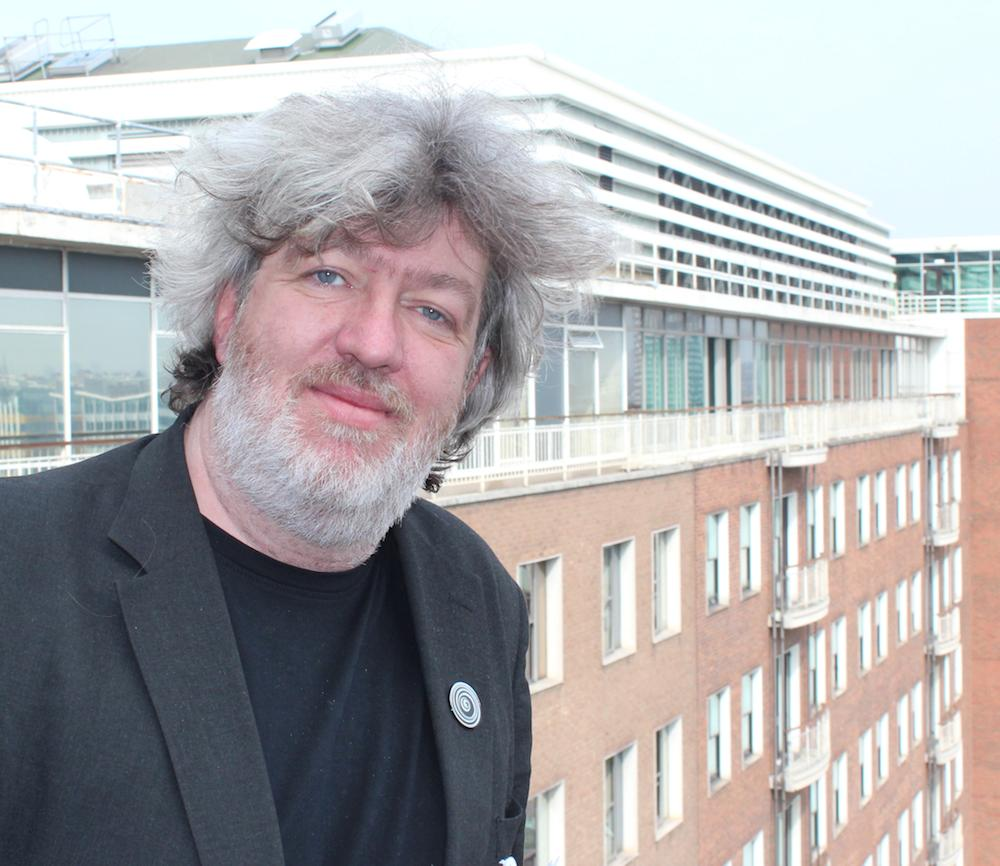 Technology writer Bill Thompson on the balcony of the 7th floor of Television Centre, London